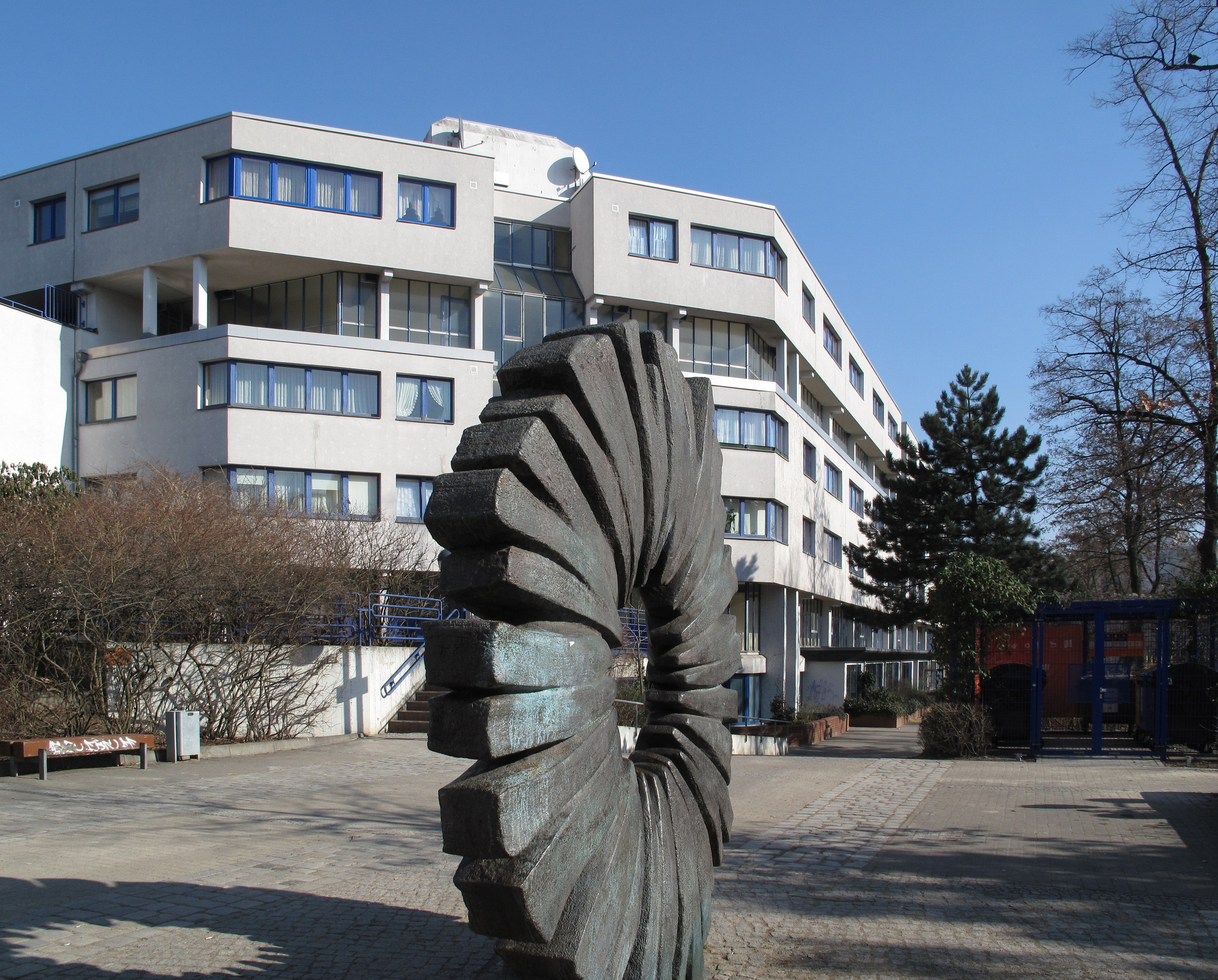 The Rollbergsiedlung is a housing estate in Berlin-Neukölln with ca. 5.800 inhabitants. Following the demolition of the old buildings today's estate was built in the 1980s according to the plans of the architects Rainer Oefelein and Bernhard Freund. The estate is considered to be a social hotspot and has a neighbourhood management.